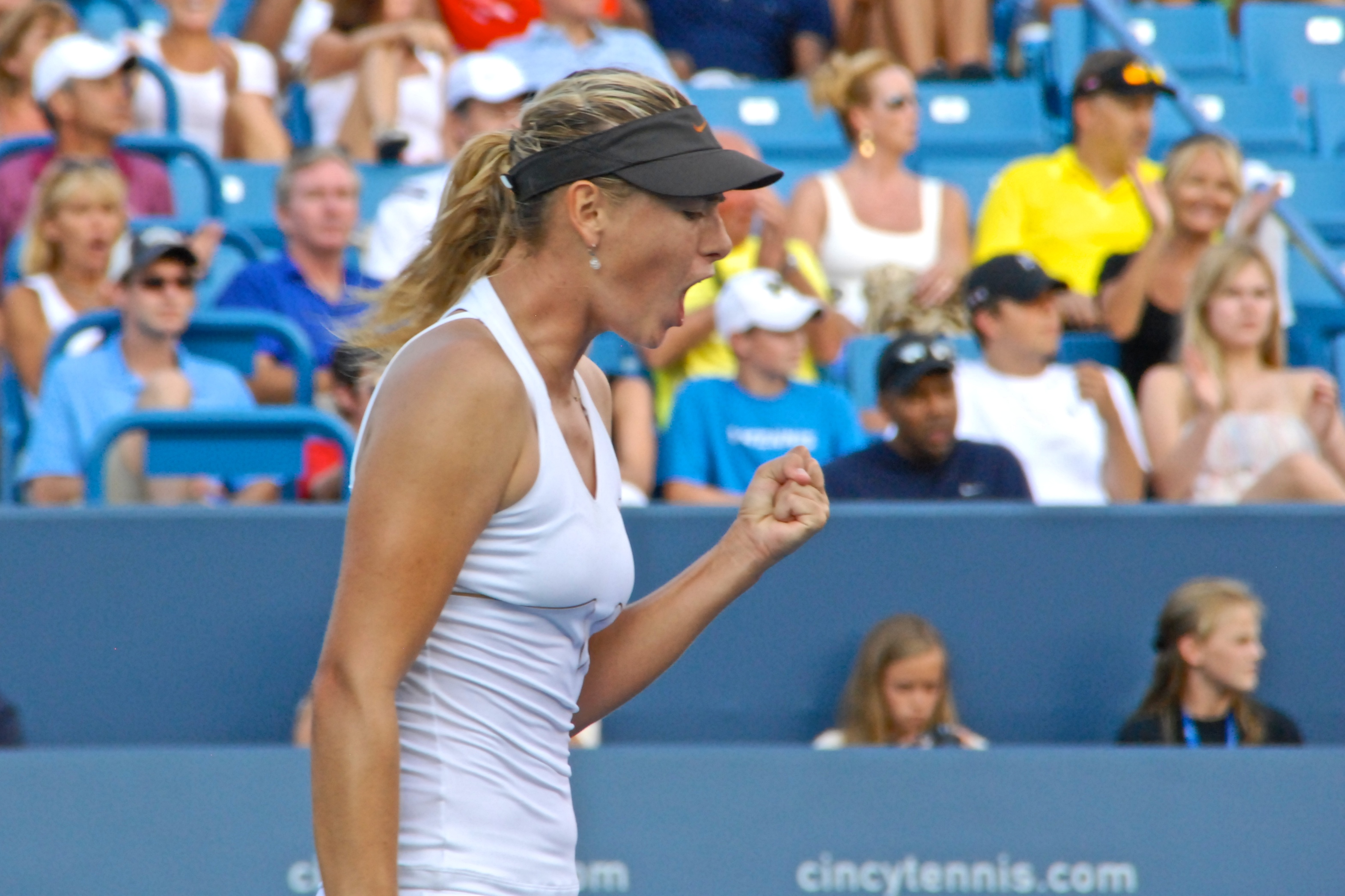 Sharapova Cincinnati 2011